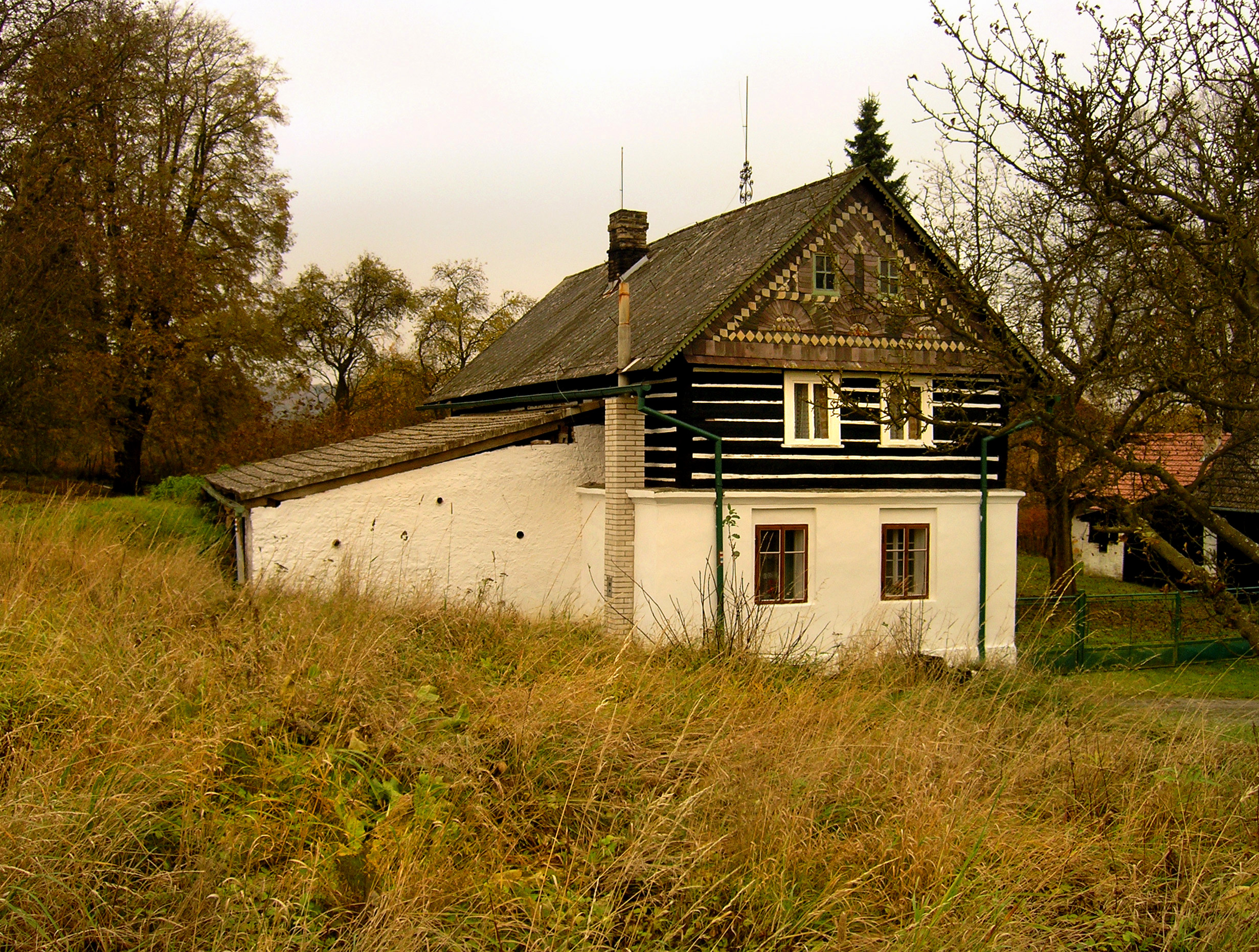 Old house, Panská Ves 12, Dubá town, Czech Republic